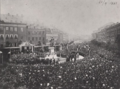 The inauguration of the Niels Juel statue at Holmens Kanal in Copenhagen, Denmark